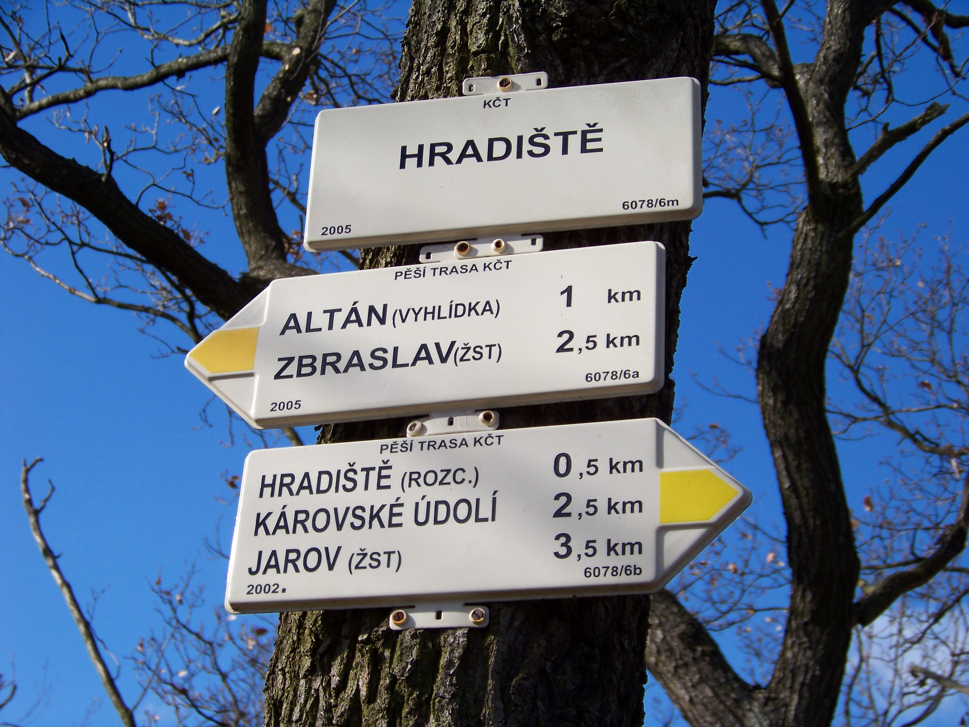 Dolní Břežany-Lhota, Prague-West District, Central Bohemian Region, the Czech Republic. Hradiště Hill. A hiking fingerpost